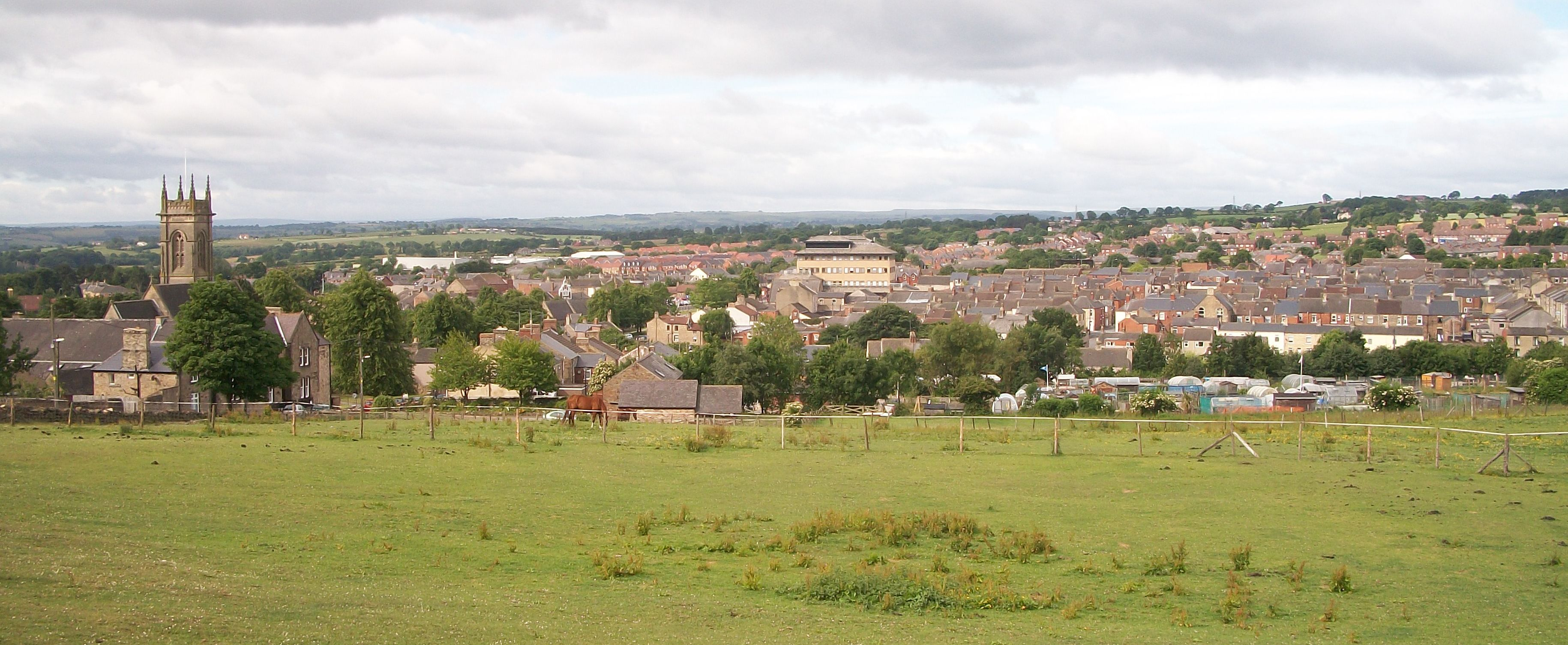 A view across Crook from Hole in the Wall Farm on Church Hill